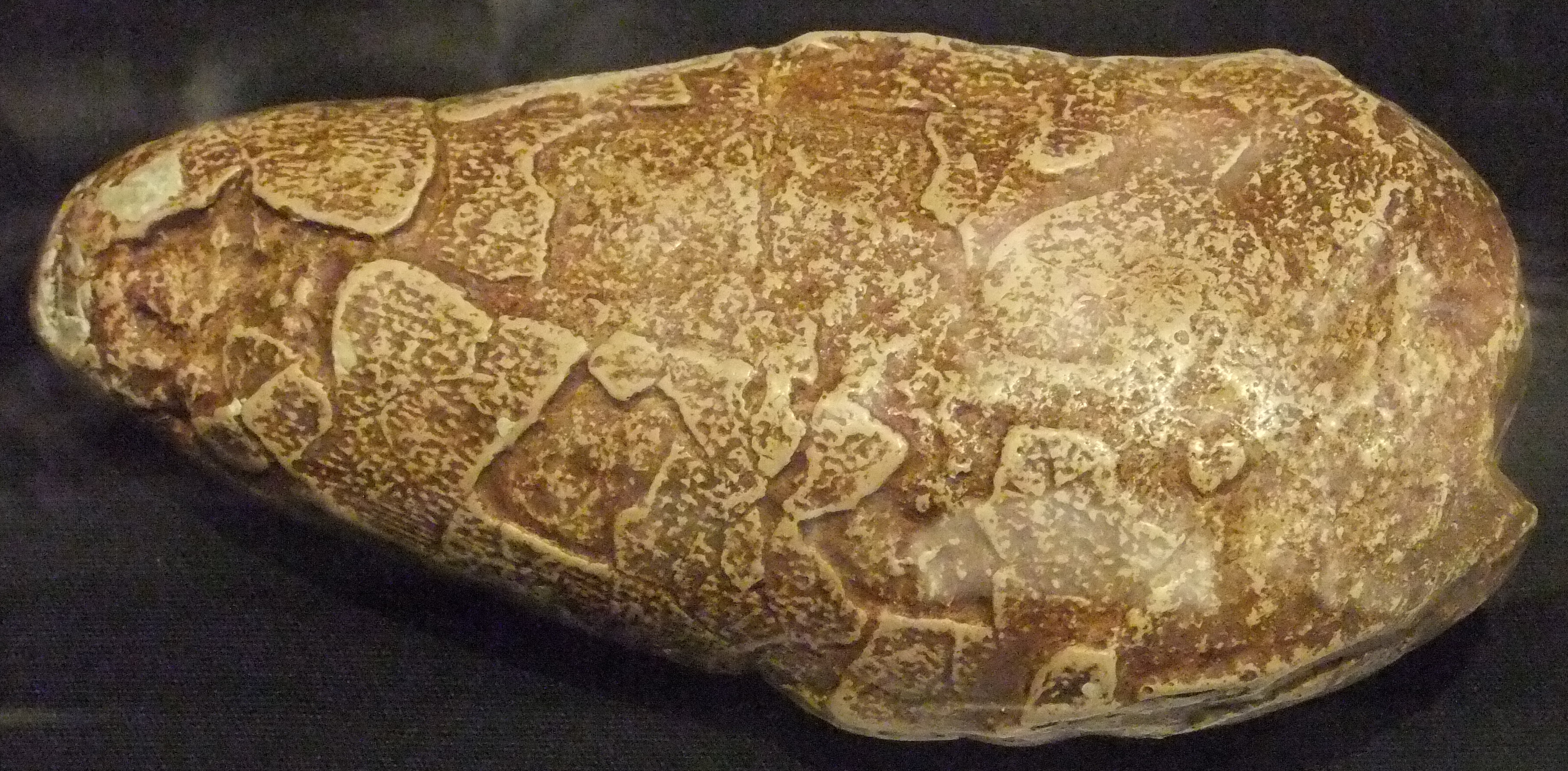 Protoceratops sp. egg (cast), Wrexham Museum, Wales.